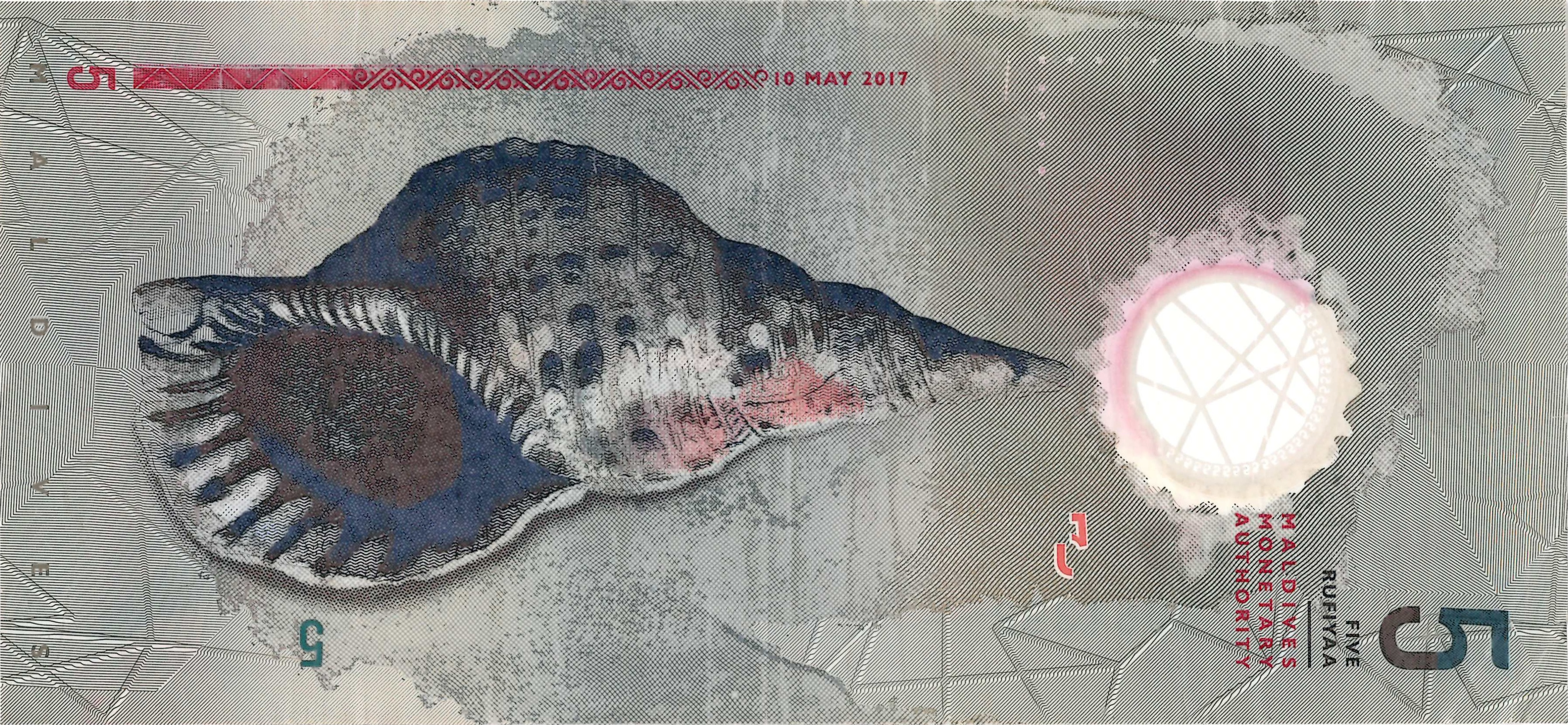 5 Maldives rufiyaa banknote, May 2017 series, reverse